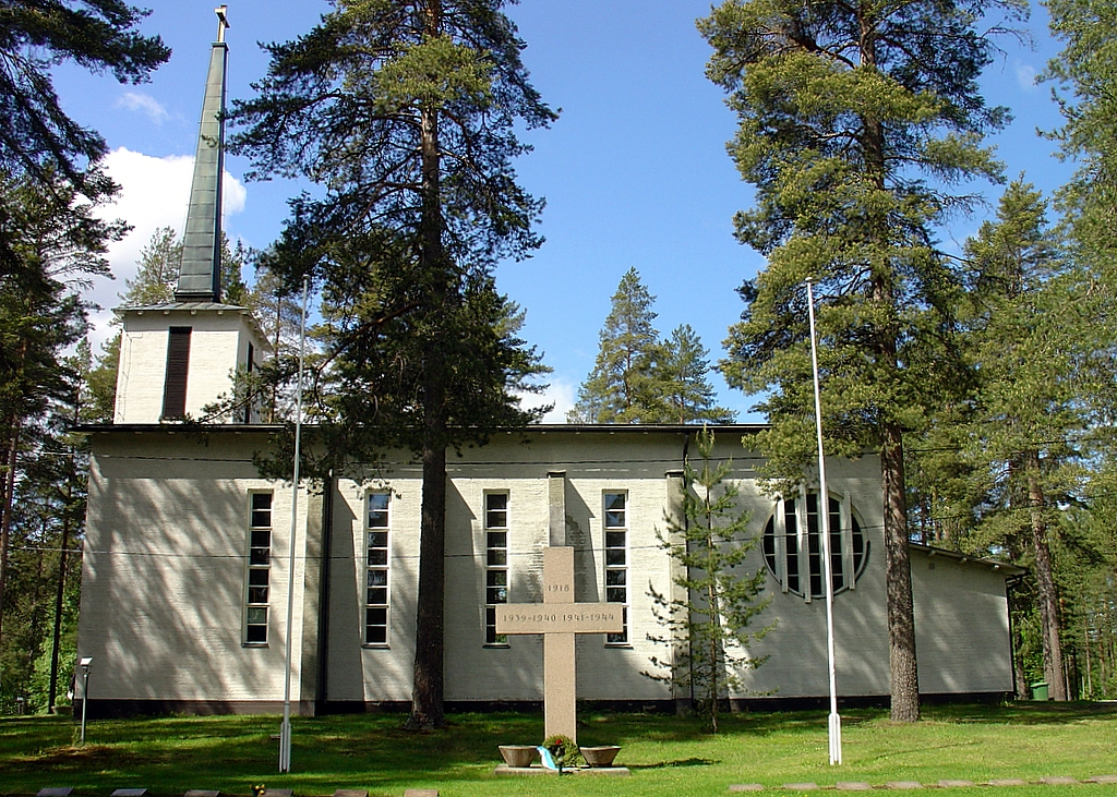 Säyneinen Church in Juankoski, Finland